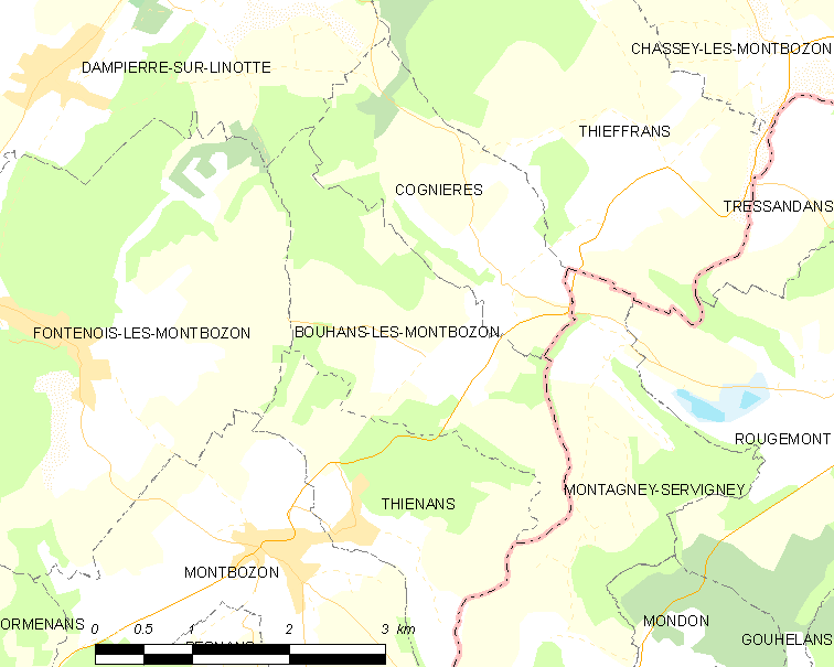 Map of French municipality